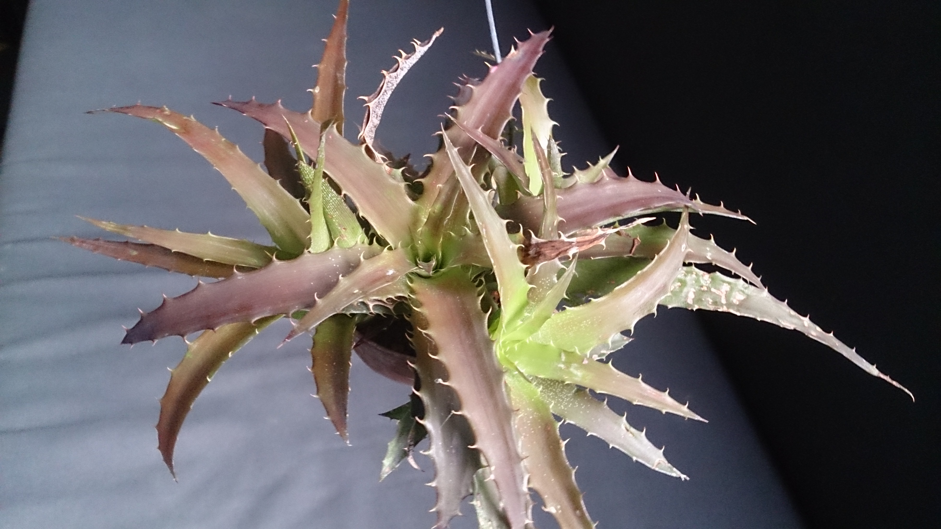 Orthophytum harleyi